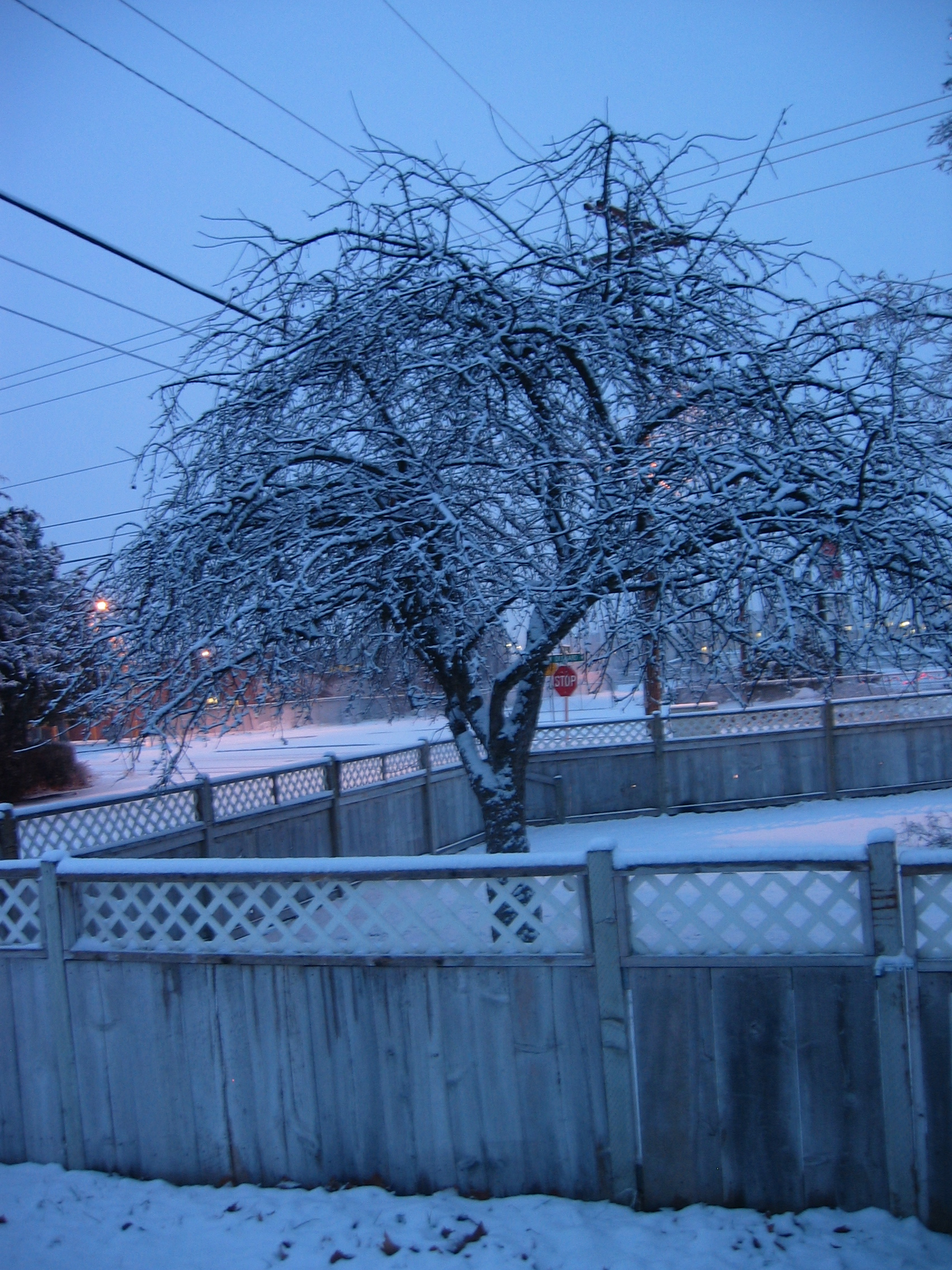 Snowed-in tree in a corner of Hermiston, Oregon across the street from the fairgrounds.